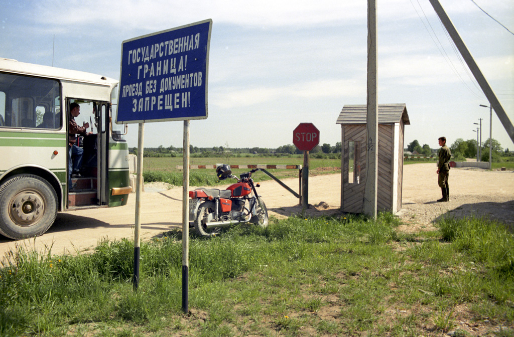 “Border checkpoint”. A checkpoint on the Russian-Latvian border.